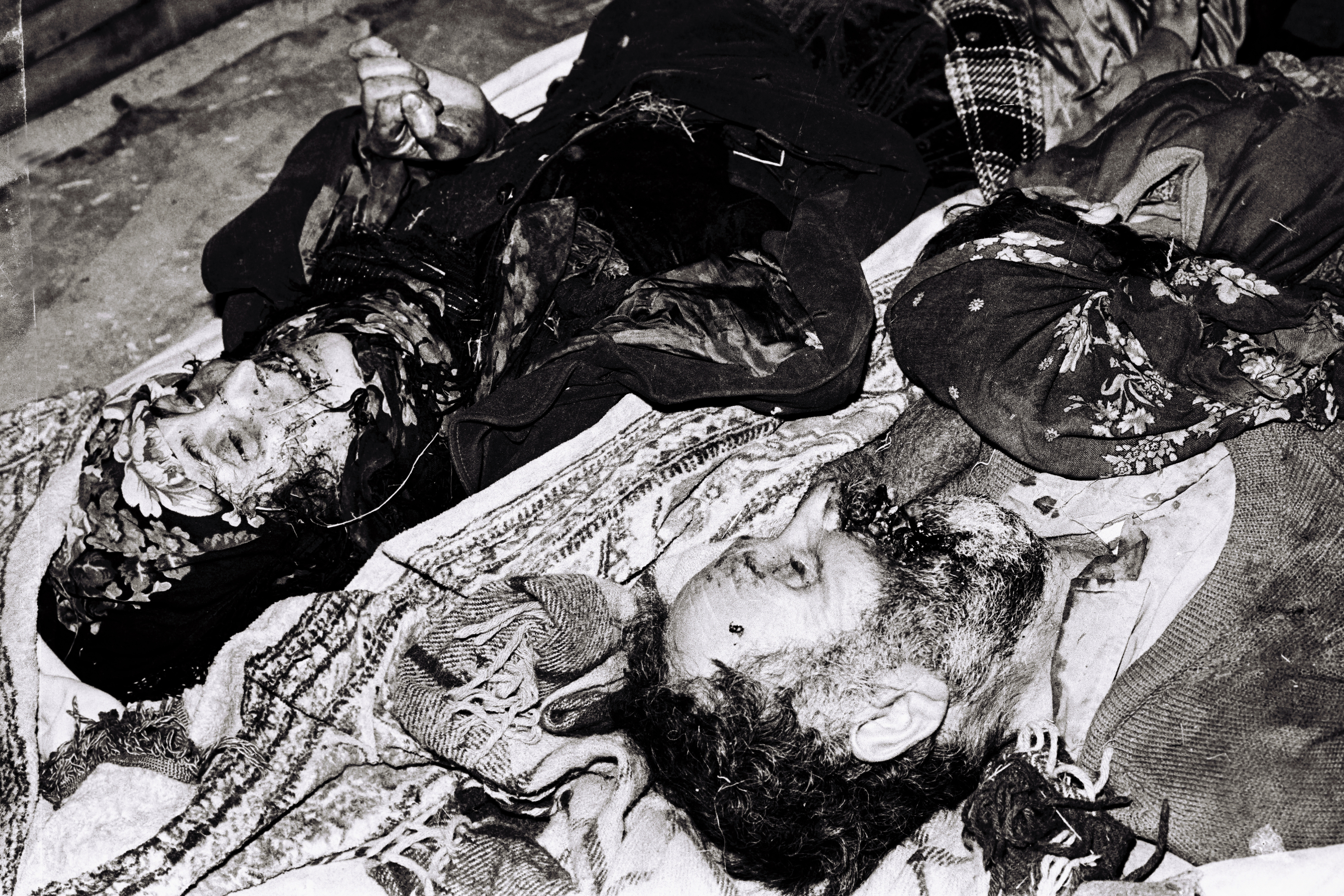 Azerbaijanians murdered in Khojali massacre. Agdam.